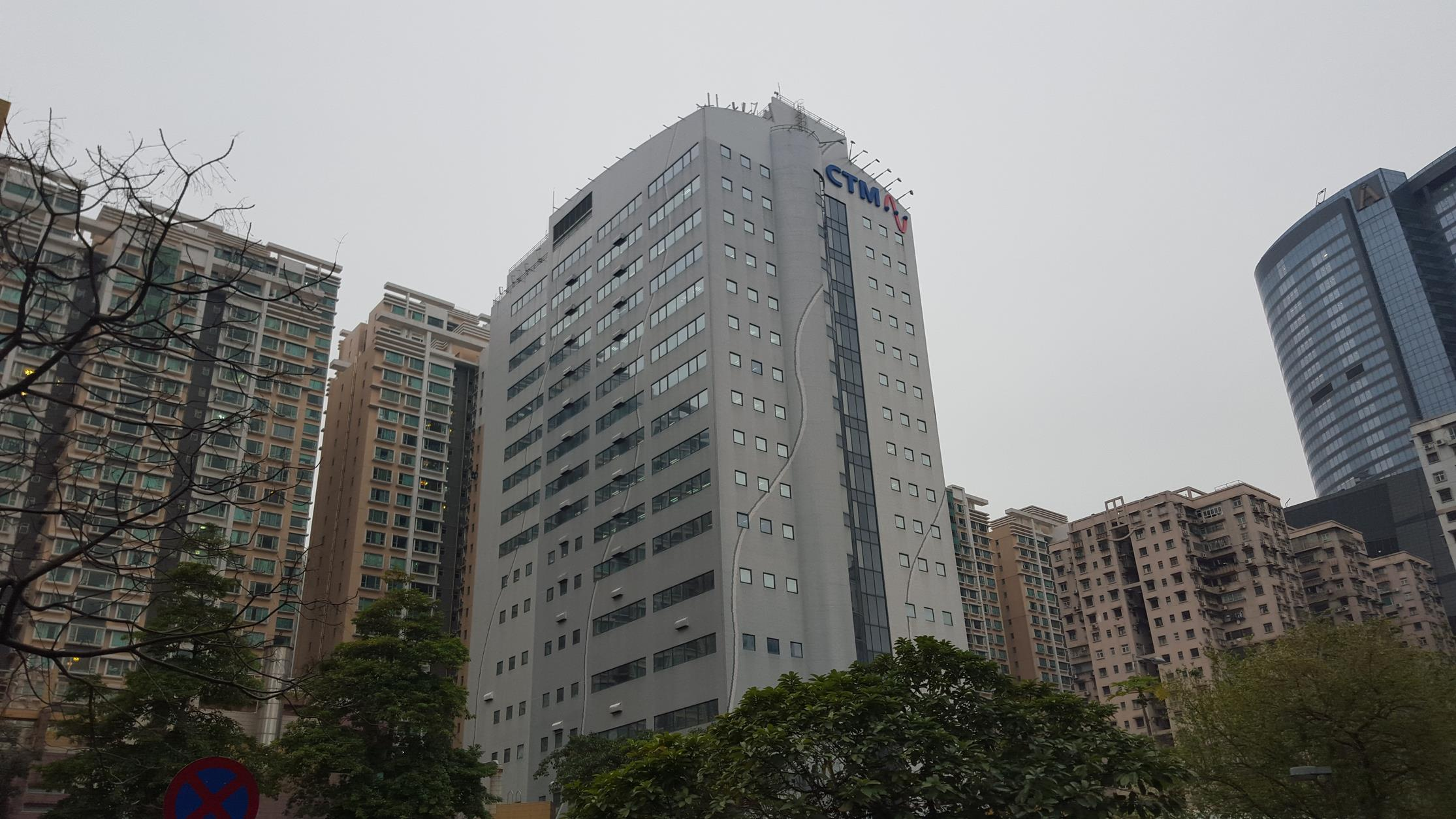 CTM Building